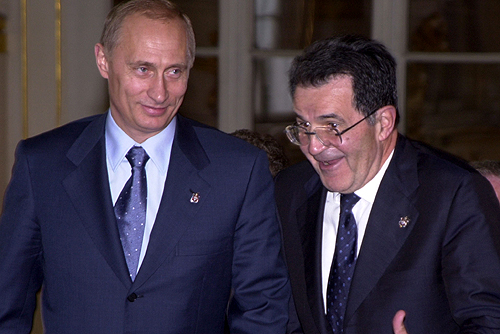 ST PETERSBURG. President Putin with European Commission President Romano Prodi.